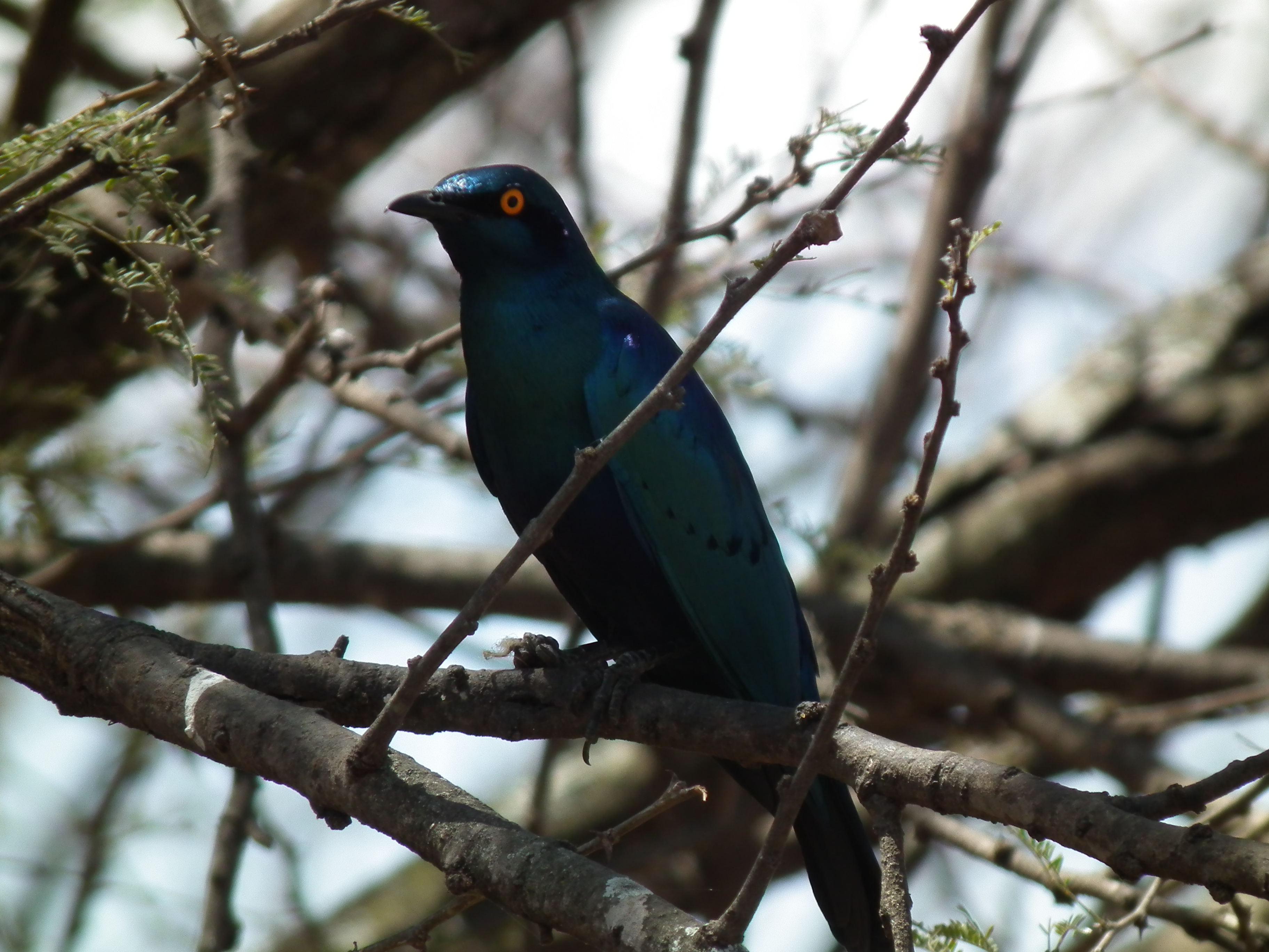 Greater blue eared Starling Lamprotornis chalybaeus, picture taken in Tanzania